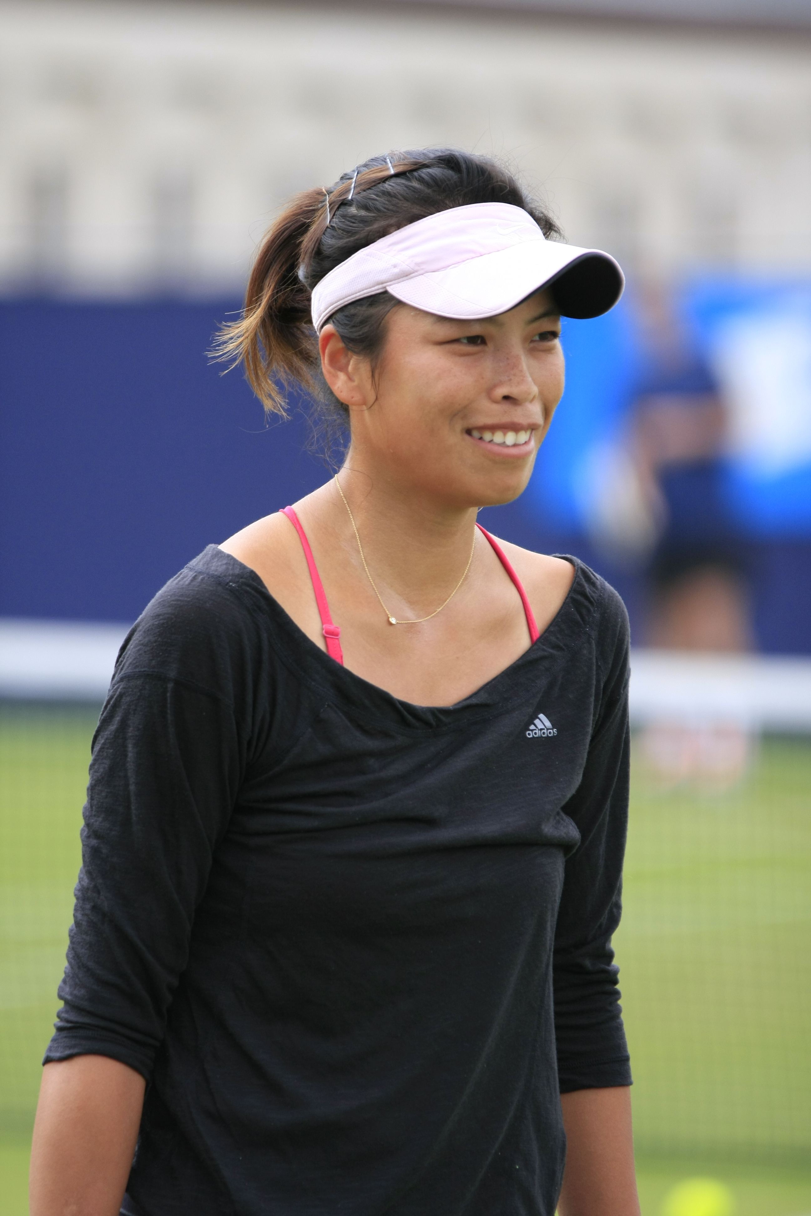 Hsieh Su-wei in 2014.